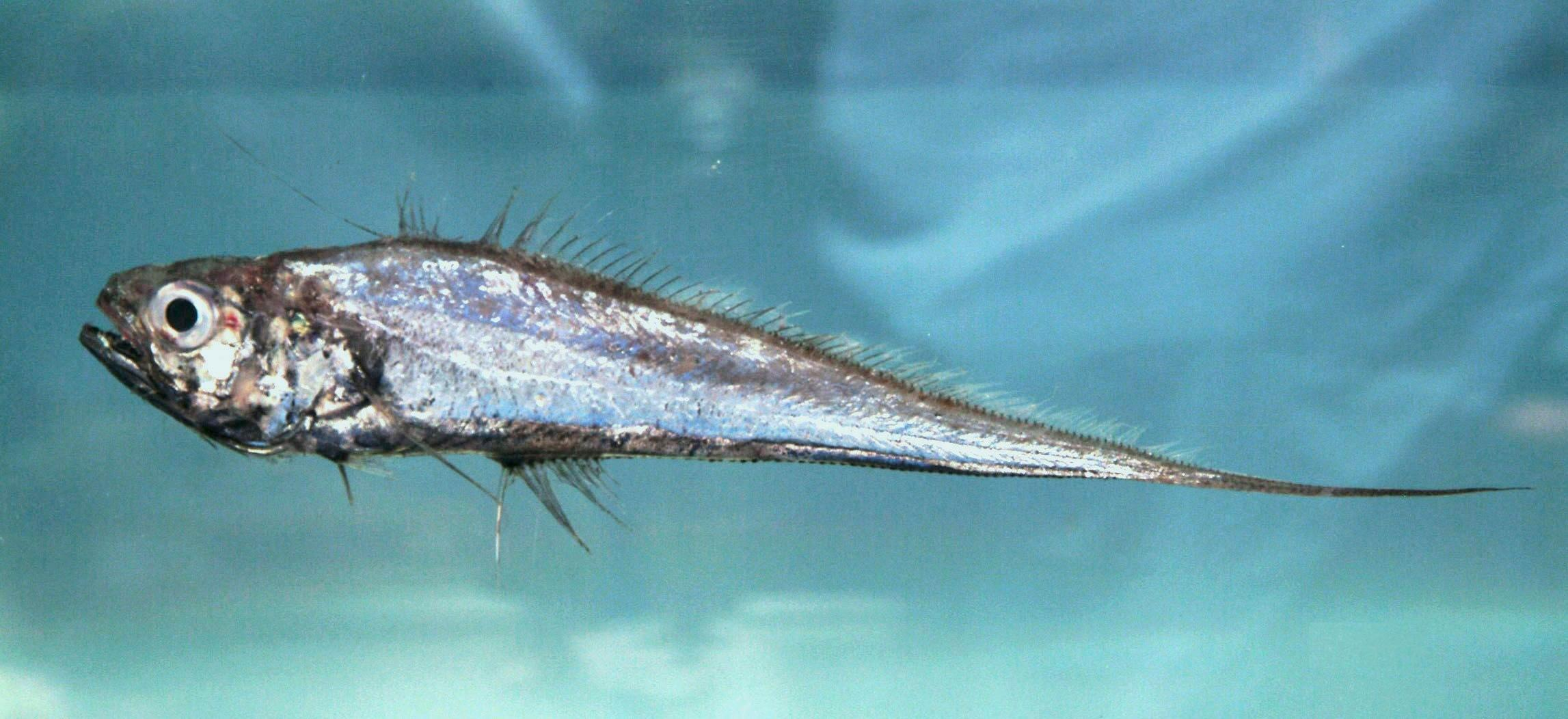 Luminous hake ( Steindachneria argentea ) Image ID: fish4480, NOAA's Fisheries Collection Location: Gulf of Mexico Credit: SEFSC Pascagoula Laboratory; Collection of Brandi Noble, NOAA/NMFS/SEFSC Location: North Carolina Continental Slope Photographer: Dr. Ken Sulak, USGS Credit: Life on the Edge 2004 Expedition: NOAA Office of Ocean Exploration